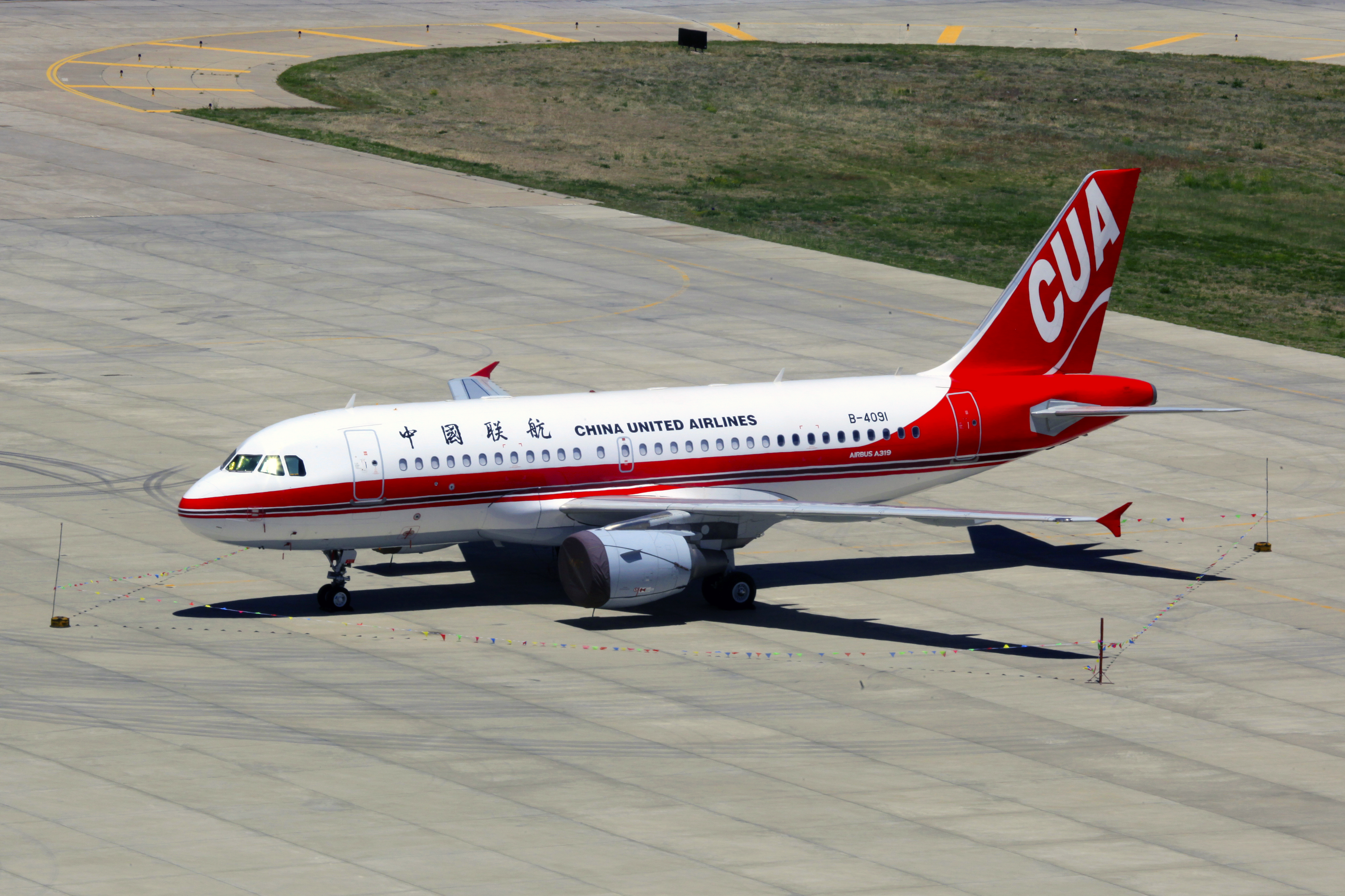 B-4091 | China United Airlines | Airbus A319-115 | Lhasa Gonggar Airport [LXA]